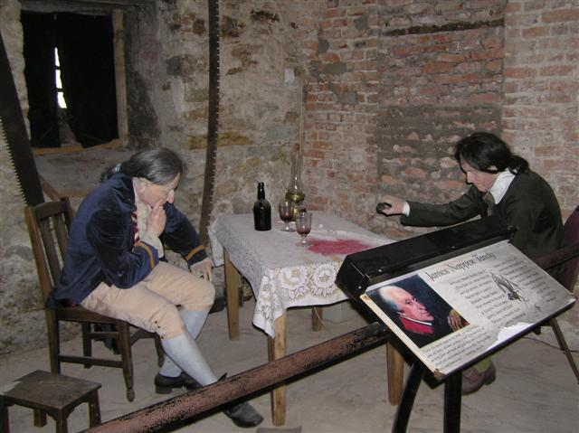 James Napper Tandy, Lifford Jail More at